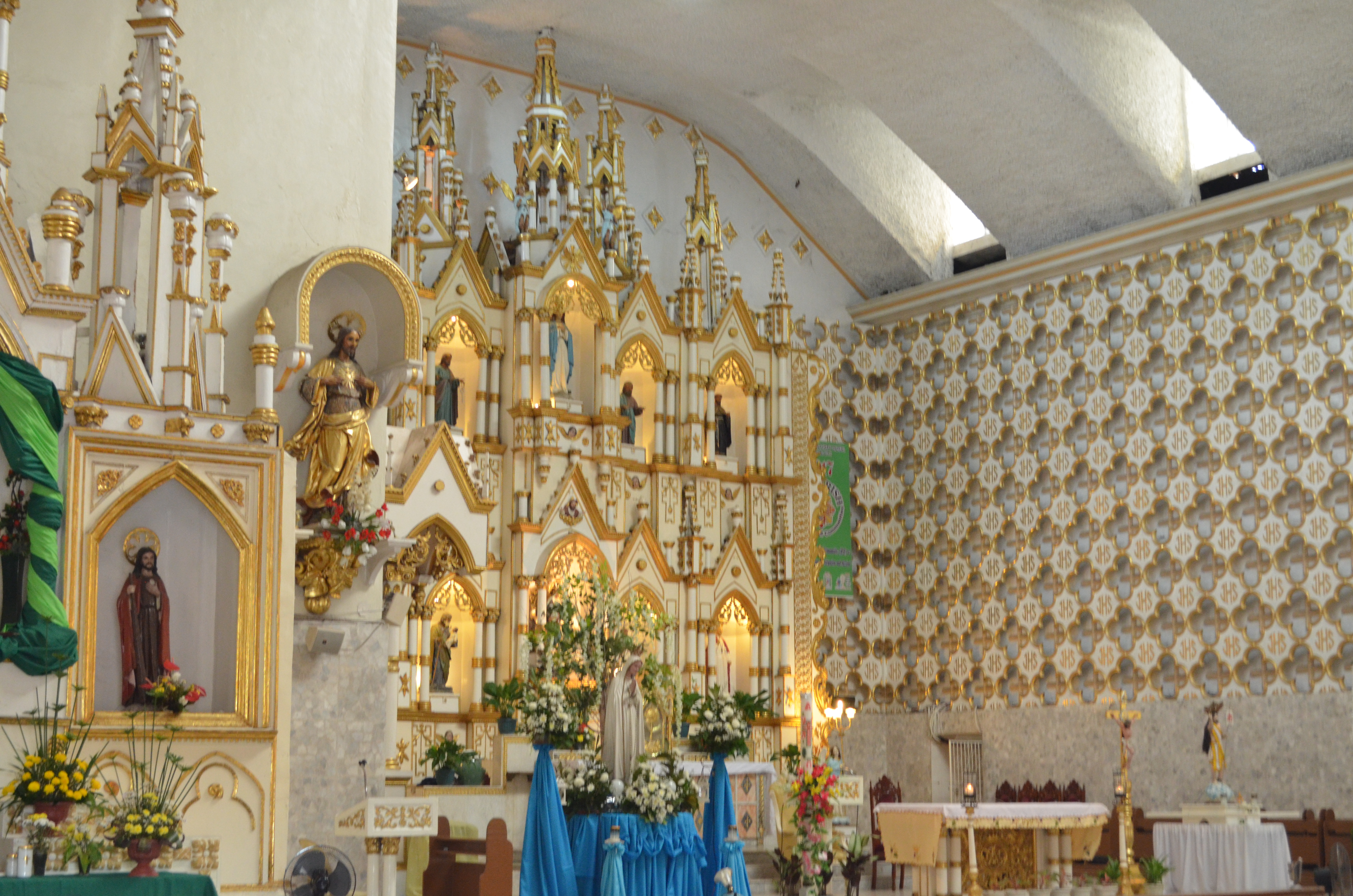 Altar of the Saints Peter and Paul Cathedral located in the Our Lady's Nativity Parish in the Diocese of Calbayog in Calbayog City, Samar, Philippines. Picture was taken on 09 May 2017